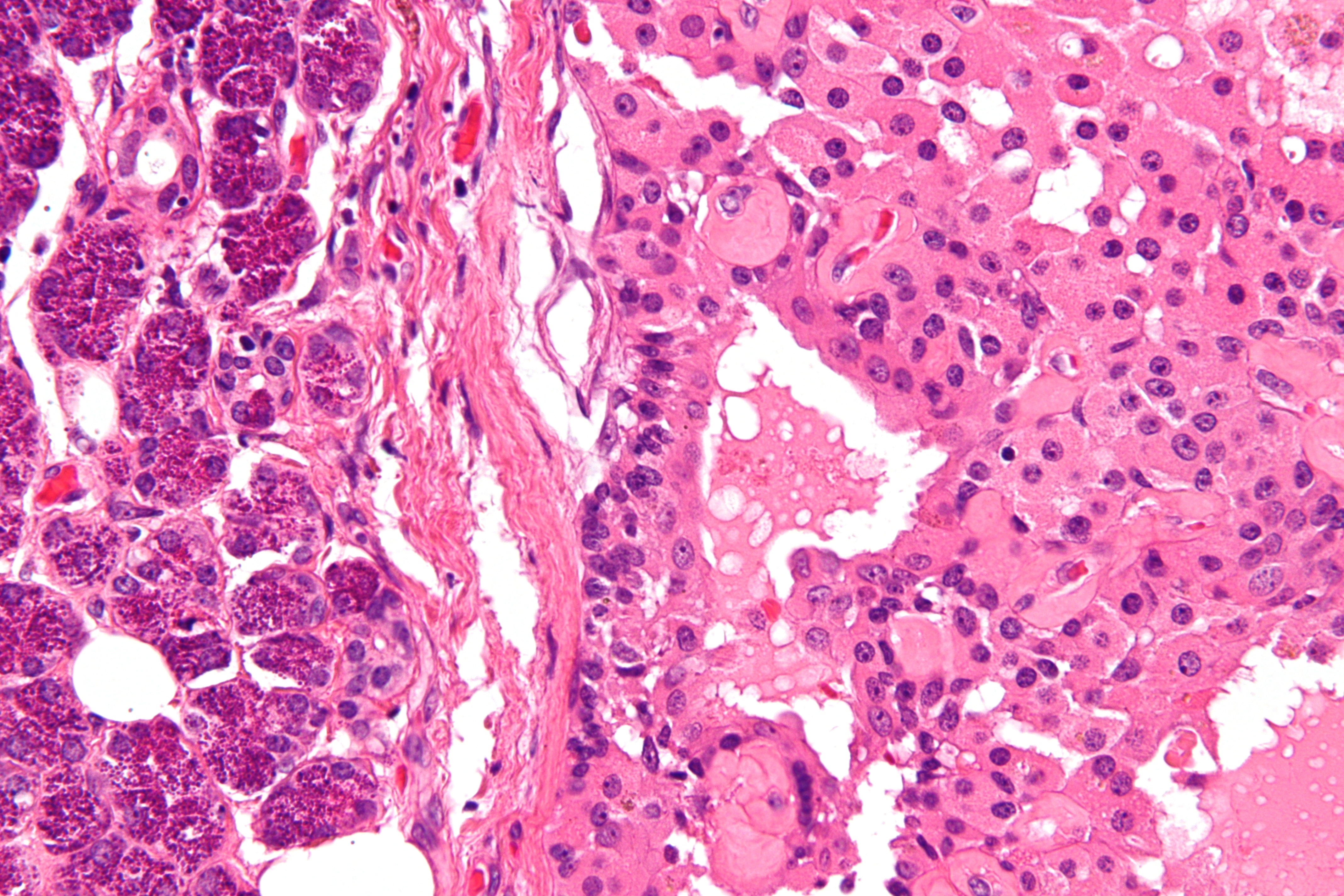 Very high magnification micrograph of a parotid salivary gland oncocytoma, also oncocytoma of the parotid gland and less specific salivary gland onocytoma or oncocytoma of the salivary gland. Oncocytomas are benign neoplasms characterized by an abundance of mitochondria. Related images Intermed. mag. High mag. Very high mag.